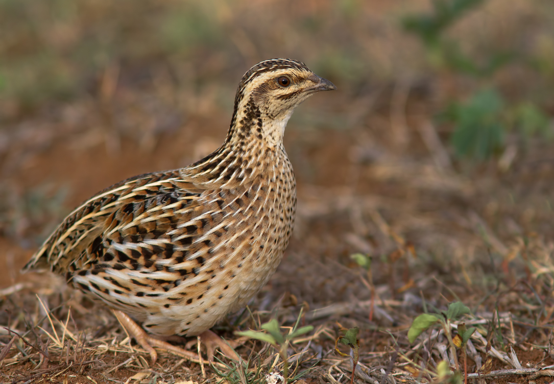 Photographed in Bangalore